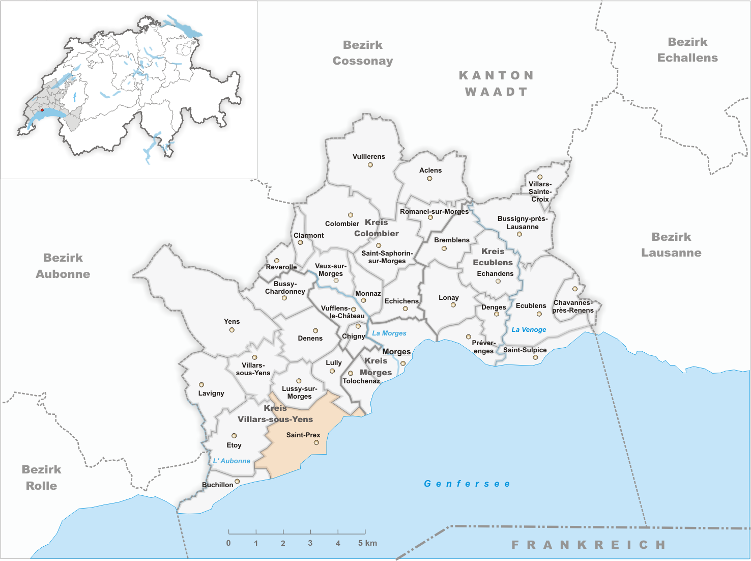 Municipality Saint-Prex